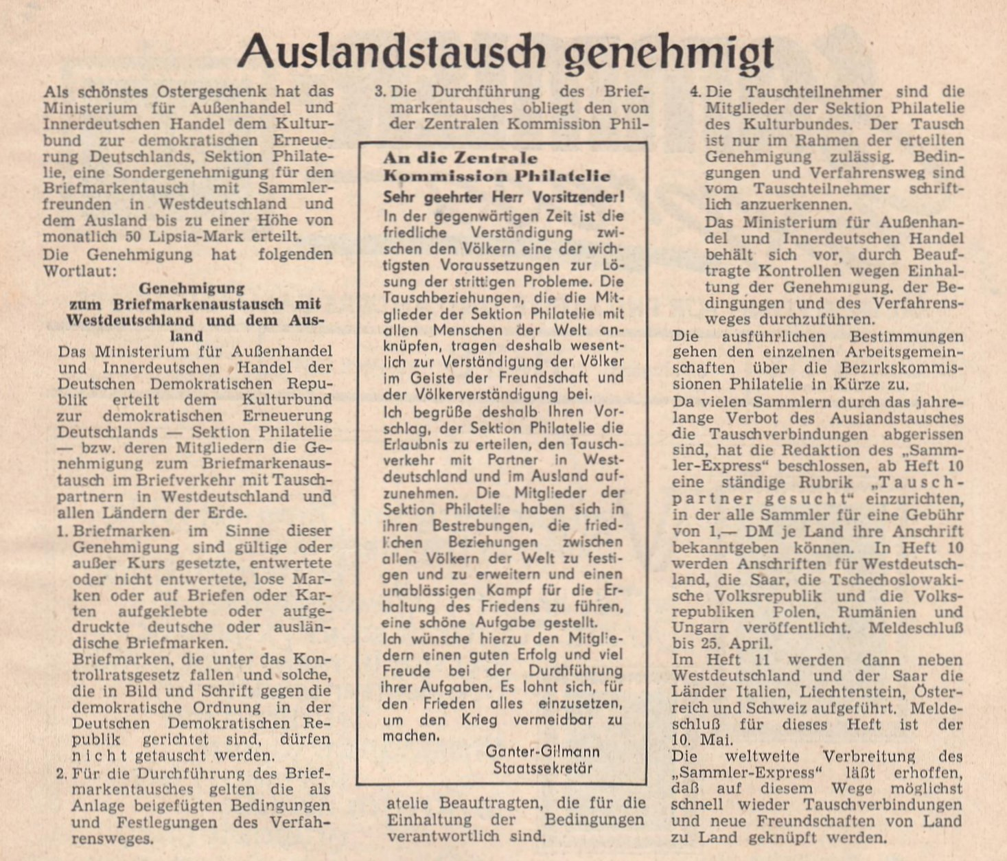 Ankündigung der Sammlerausweise in: sammler express 1954, H. 4, S. 118